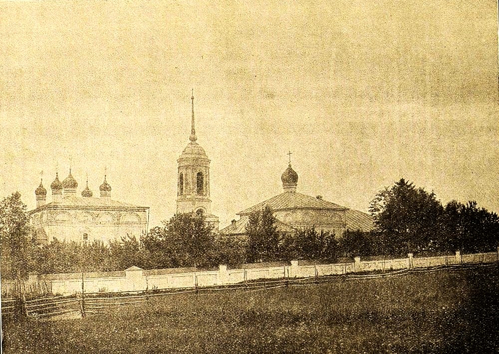 Churchs of village Gremyachevo